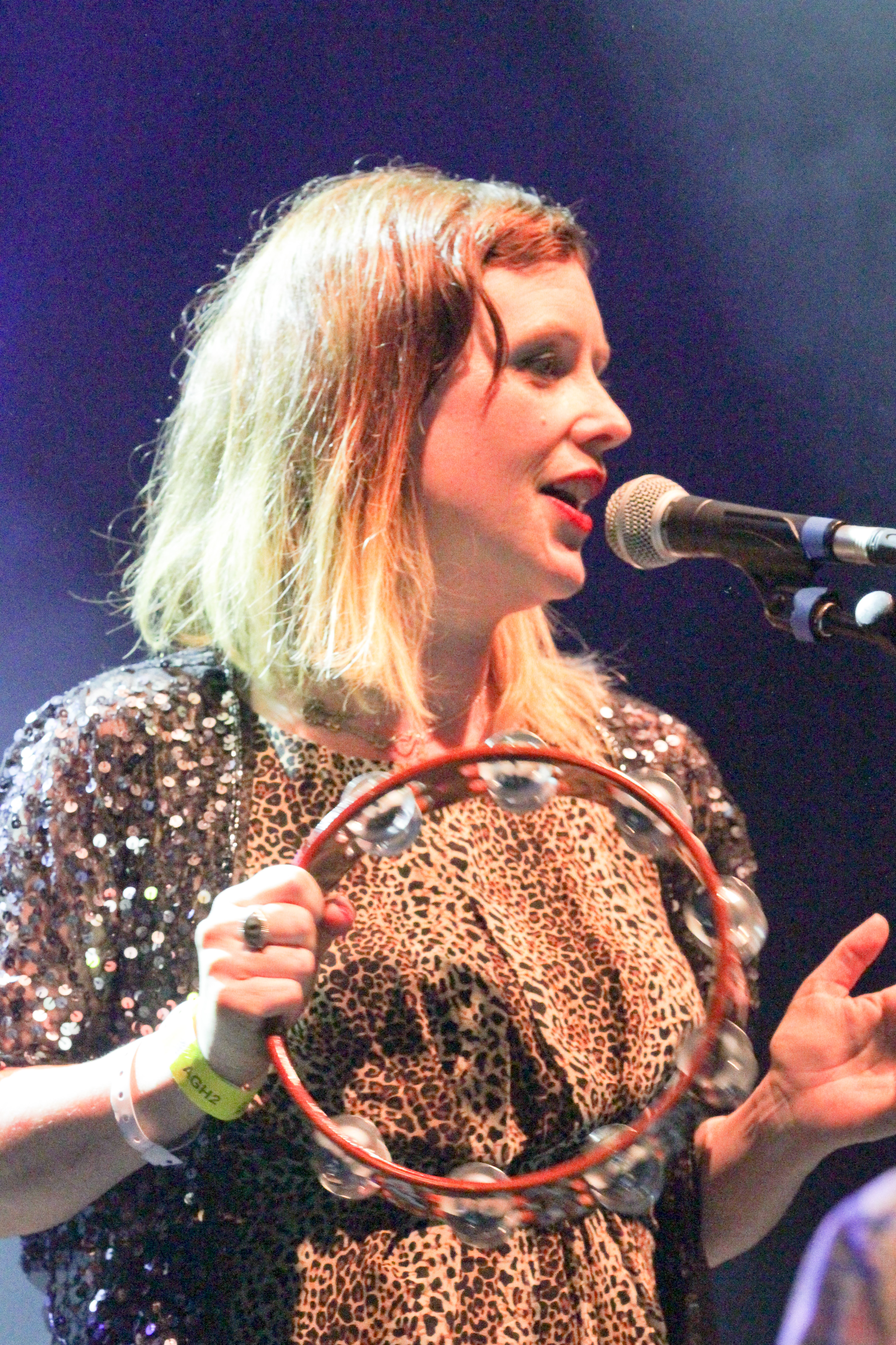 Slowdive at the Wave-Gotik-Treffen 2014.